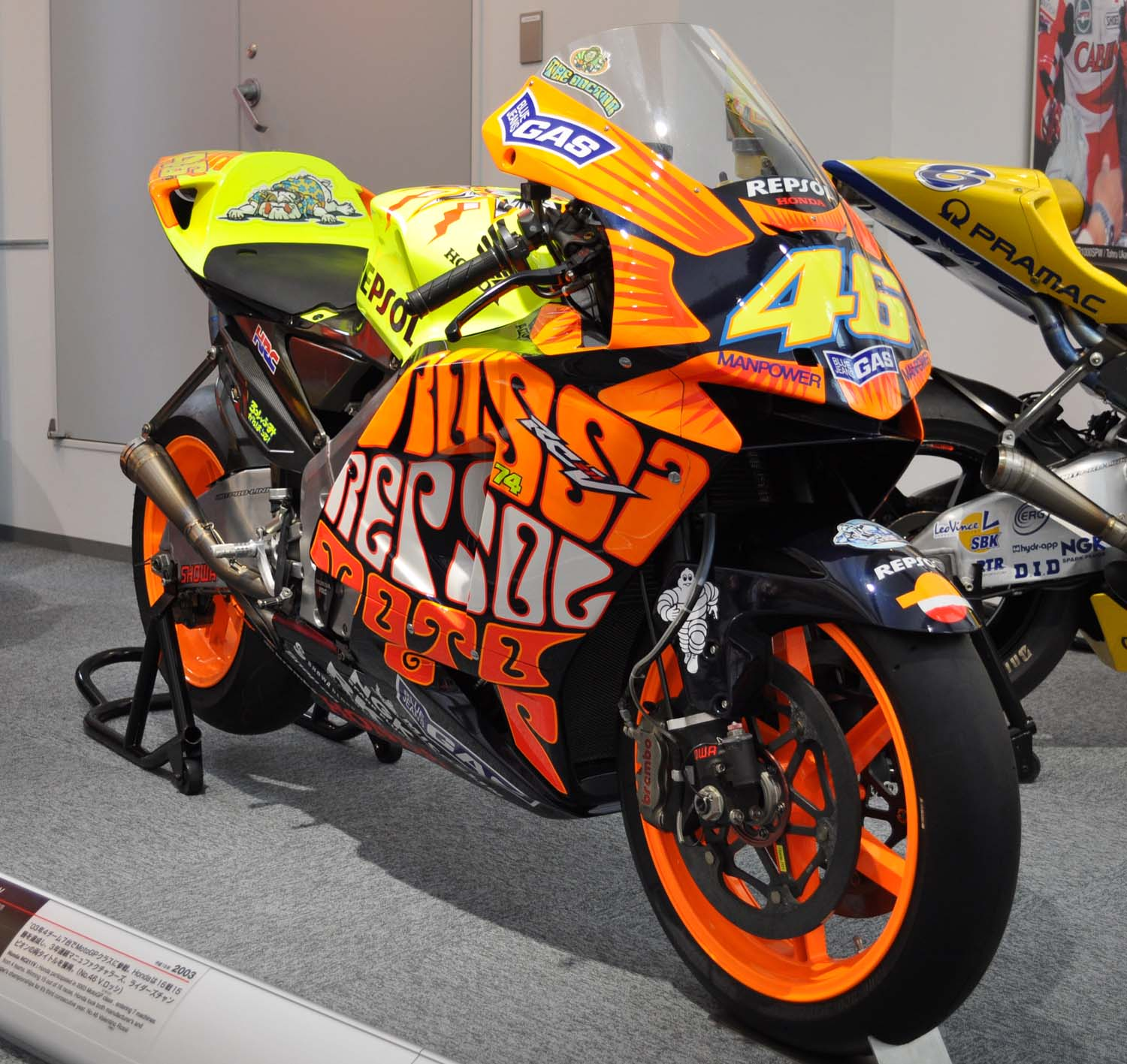 Honda RC211V (Valentino Rossi, 2003)